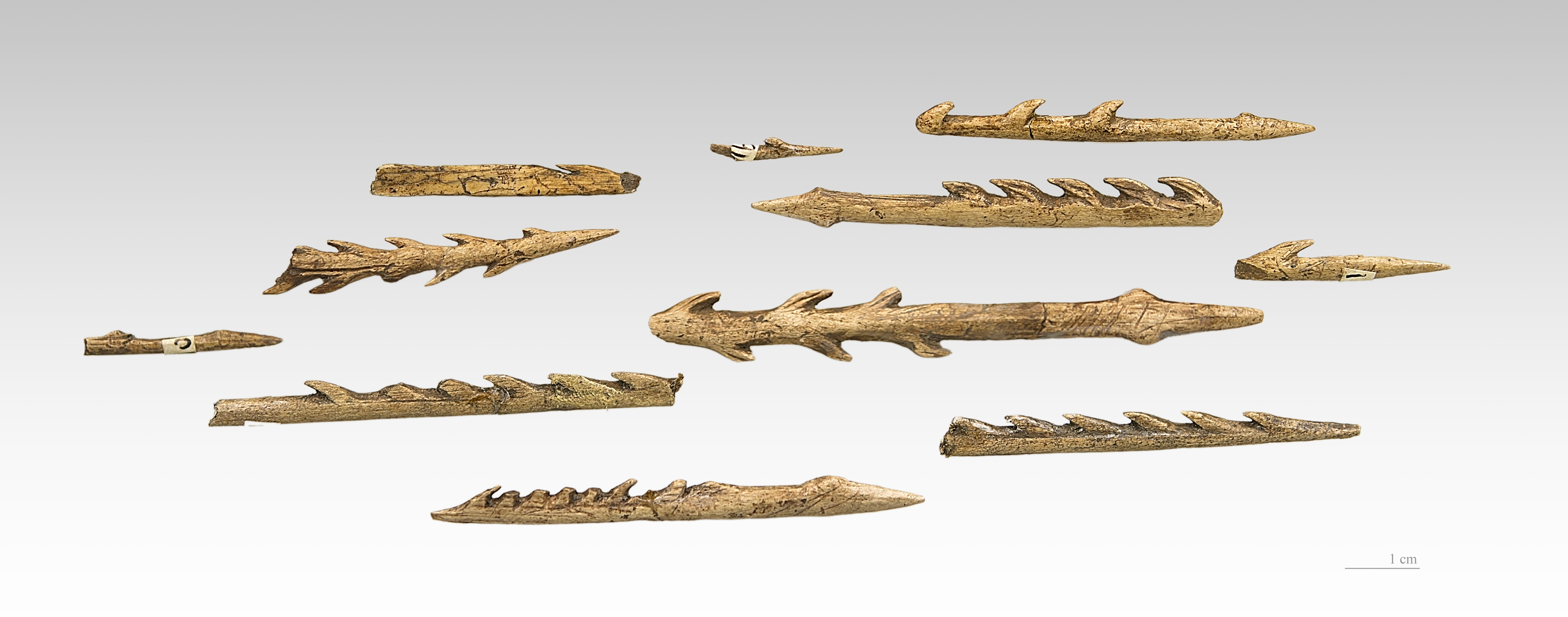 Small harpoons in reindeer antler. Stage: Midle Magdalenian (III and IV) between 15000 and 12000 BP. Locality: Prehistoric site of Fontalès Saint-Antonin-Noble-Val, Tarn-et-Garonne – France